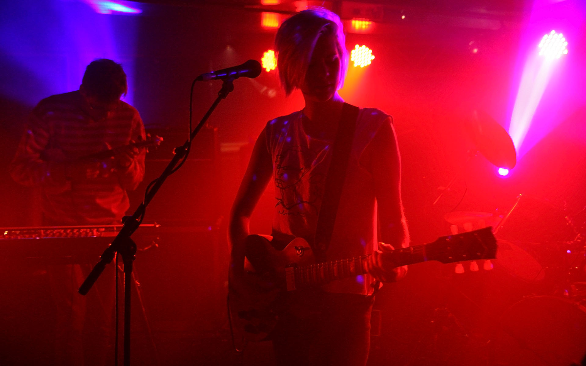 Erika M. Anderson/EMA, Waves Vienna Music Festival & Conference 2011 in Vienna.